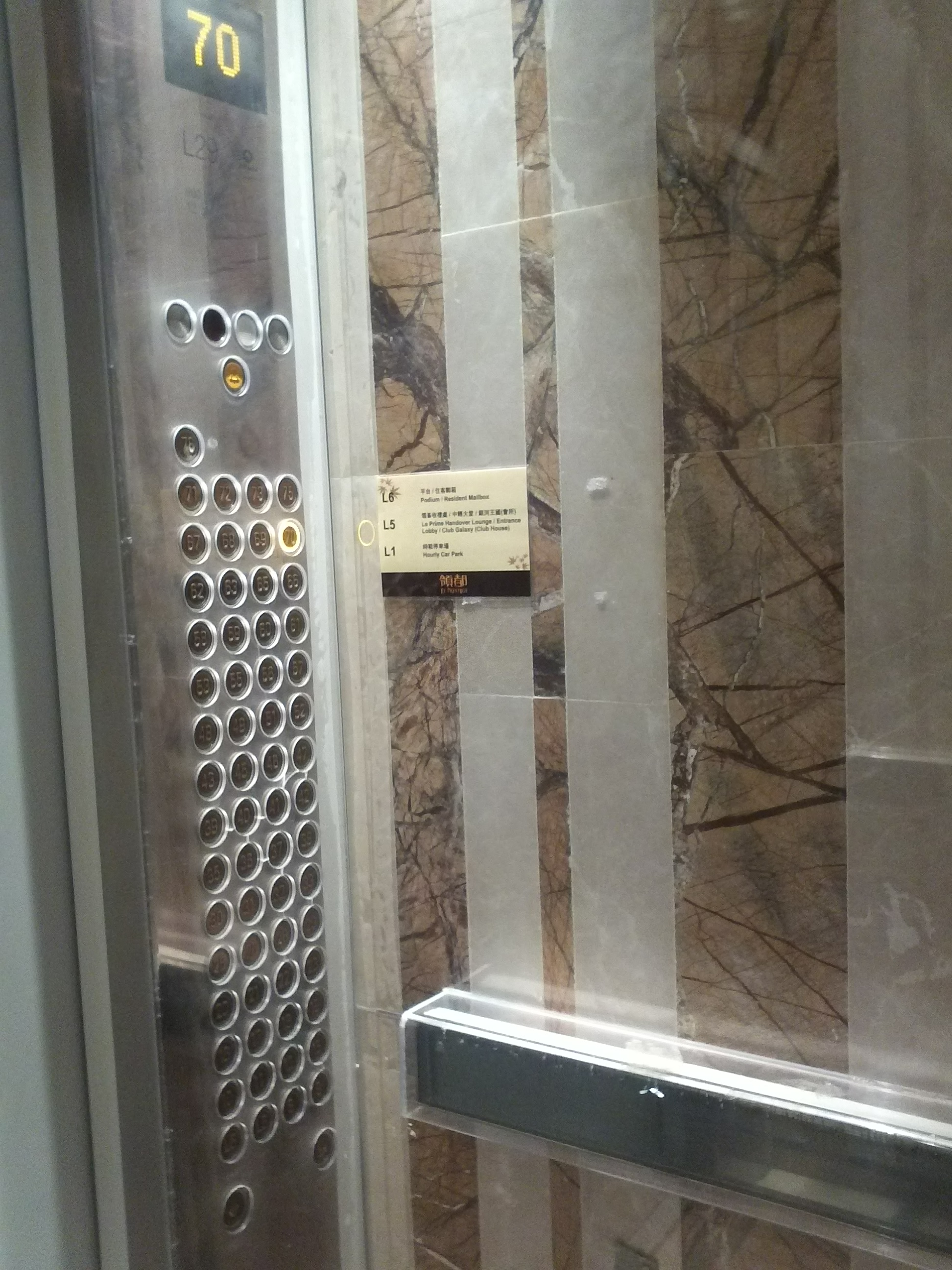 Le Prime Lift L29